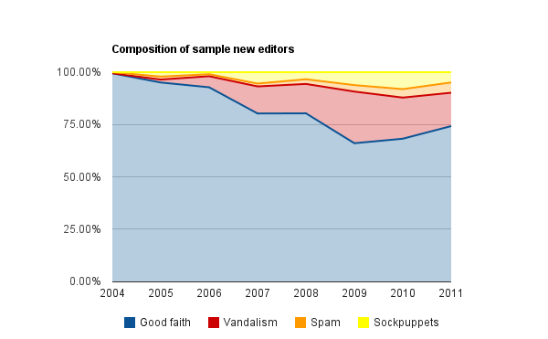 The percent of good faith editors, vandals, spammers, and sockpuppets from 2004-2011, out of a randomized sample of 150-200 new editors per year.